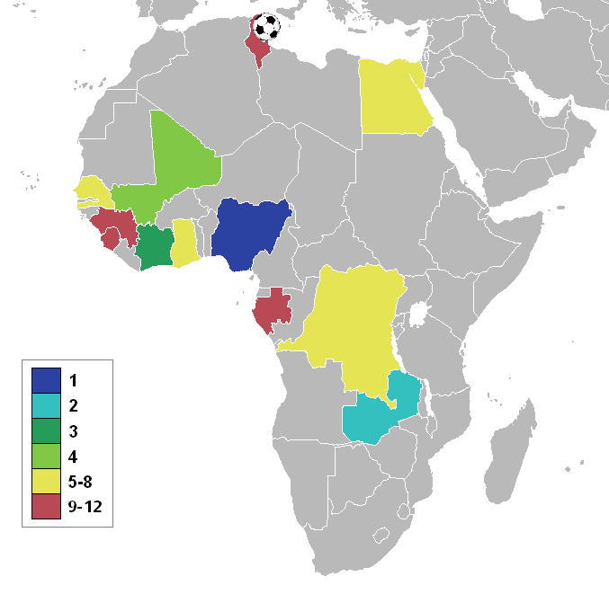 Countries positions in the African Cup of Nations 1st 2nd 3rd 4th 5th-8th 9th-12th Football denotes host nation